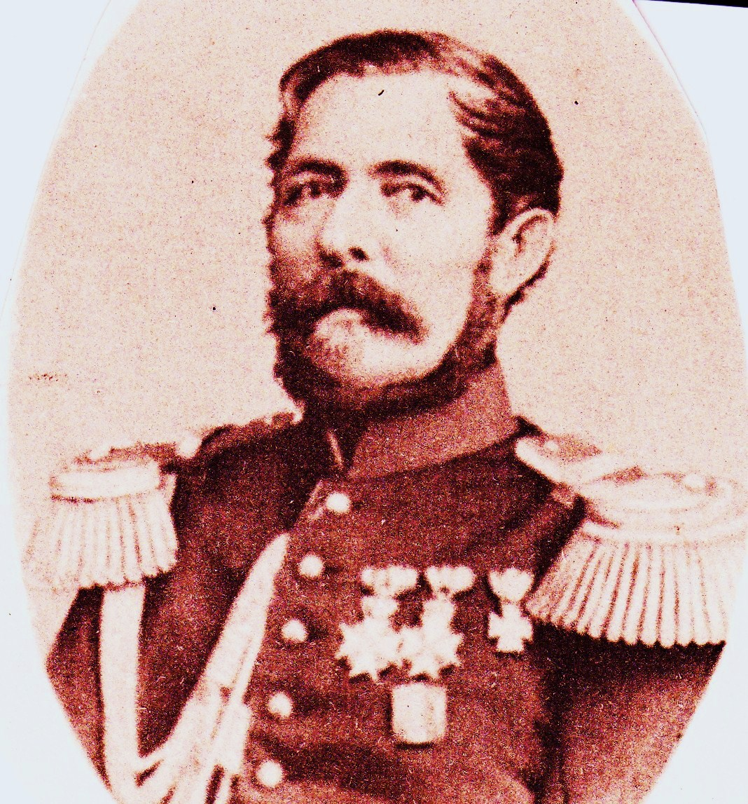 Generaal A.J. Andresen